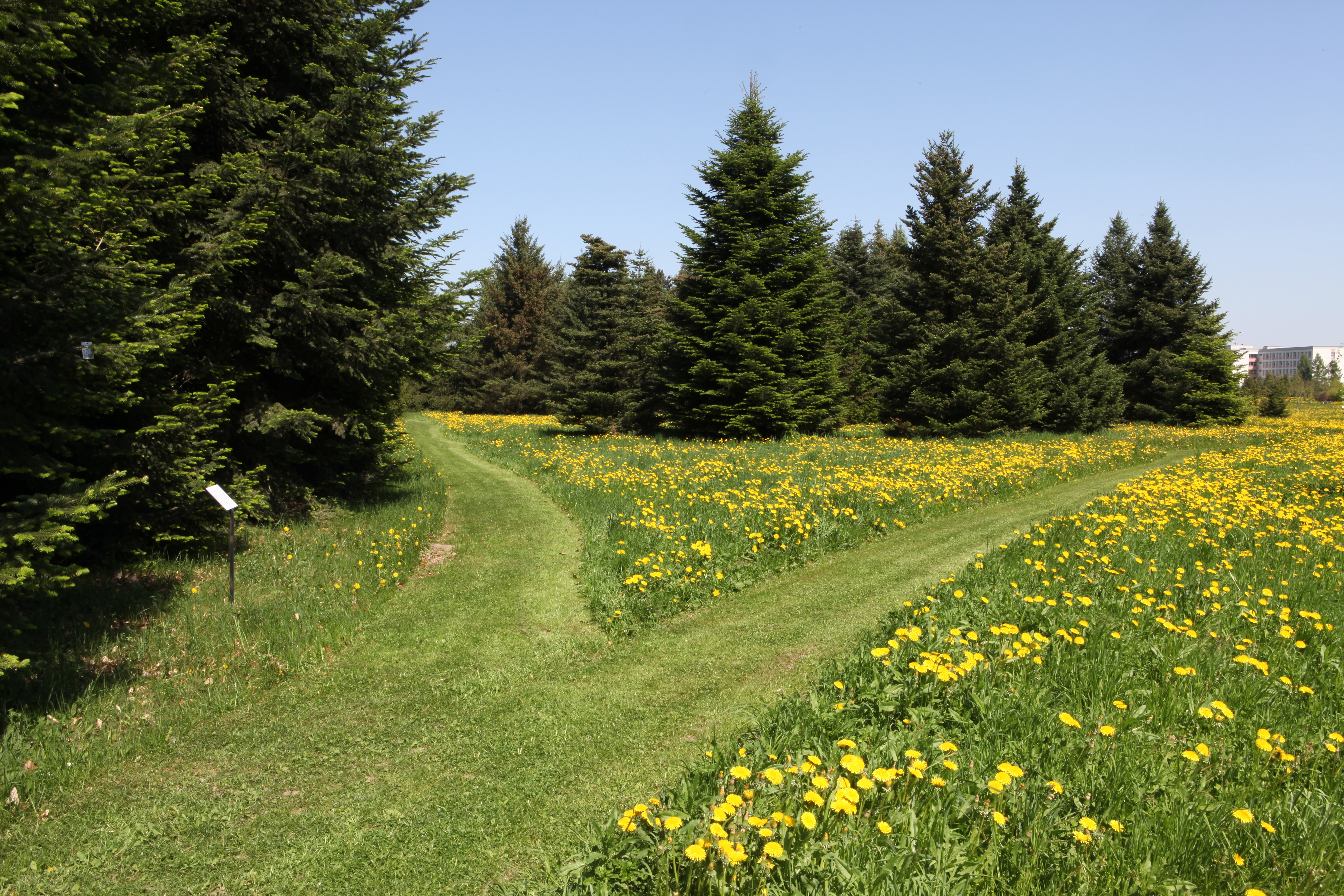 Arboretum of VMU Agriculture academy, Kaunas region, Lithuania